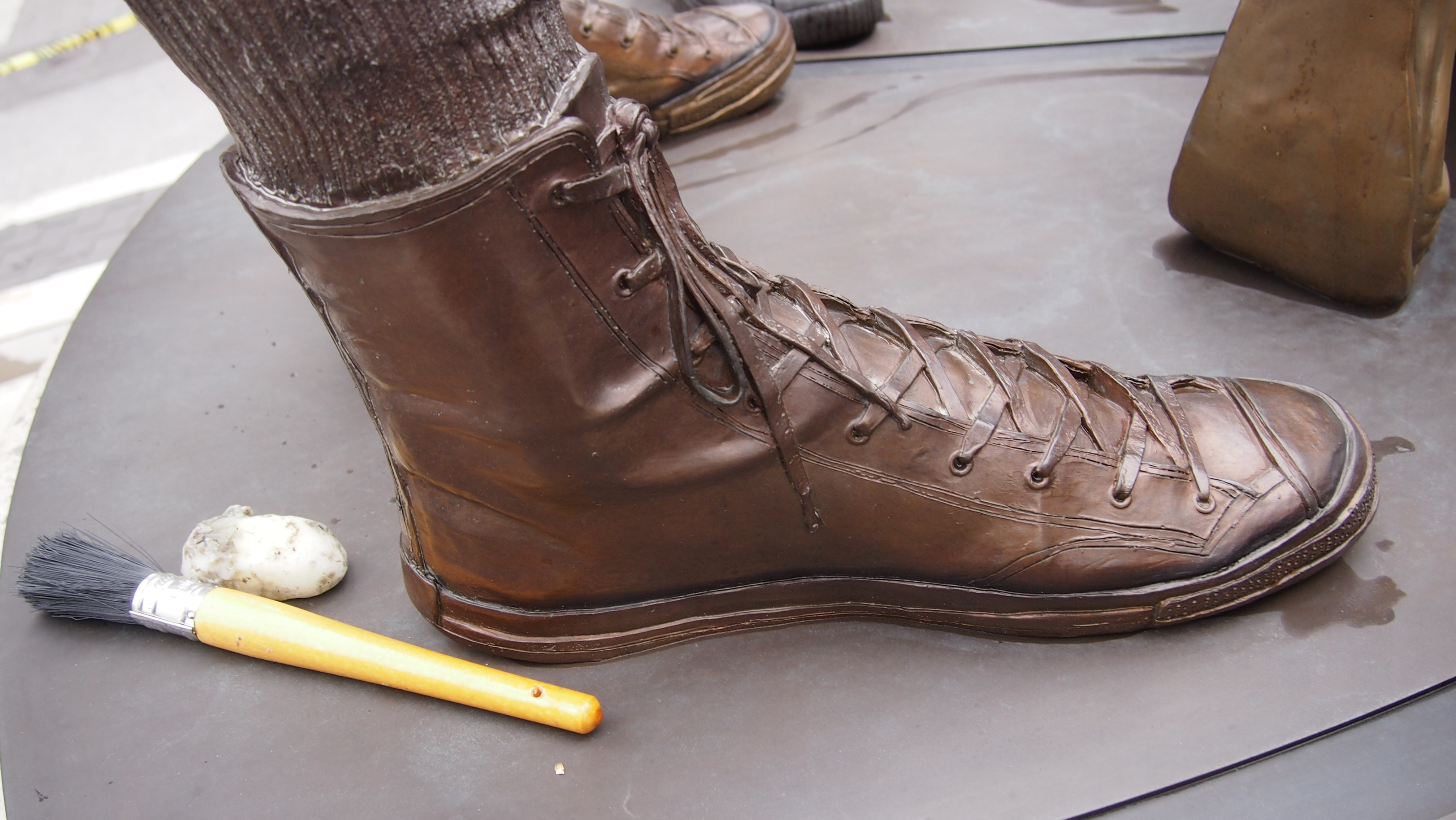 Wax and a brush used to maintain a bronze sculpture. The only visible details of the sculpture is a laced boot.